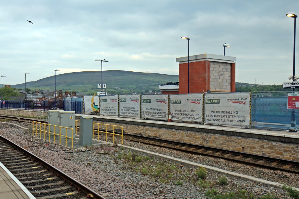 Construction work, Stalybridge railway station